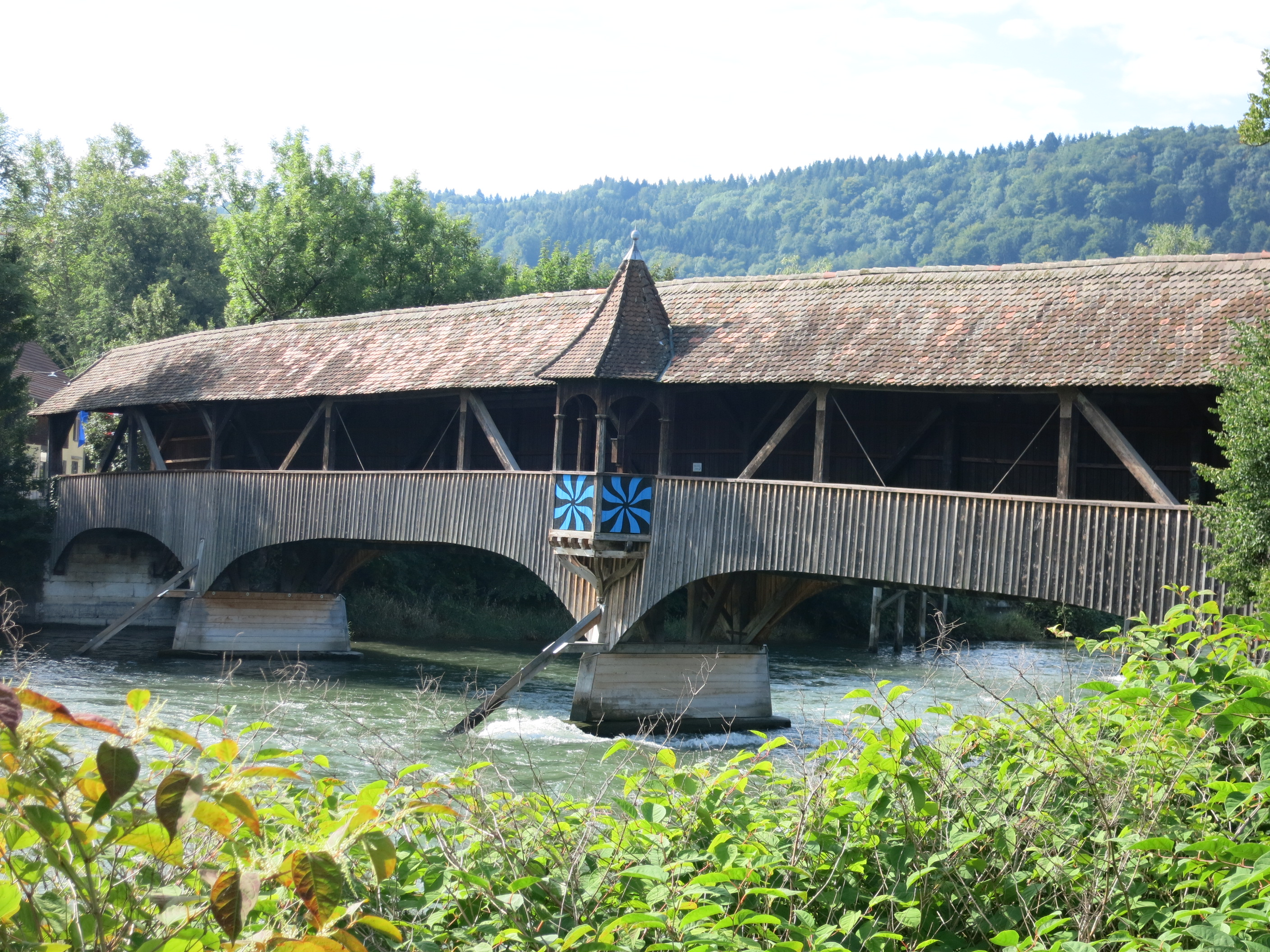 Turgi AG, Covered bridge over Limmat river